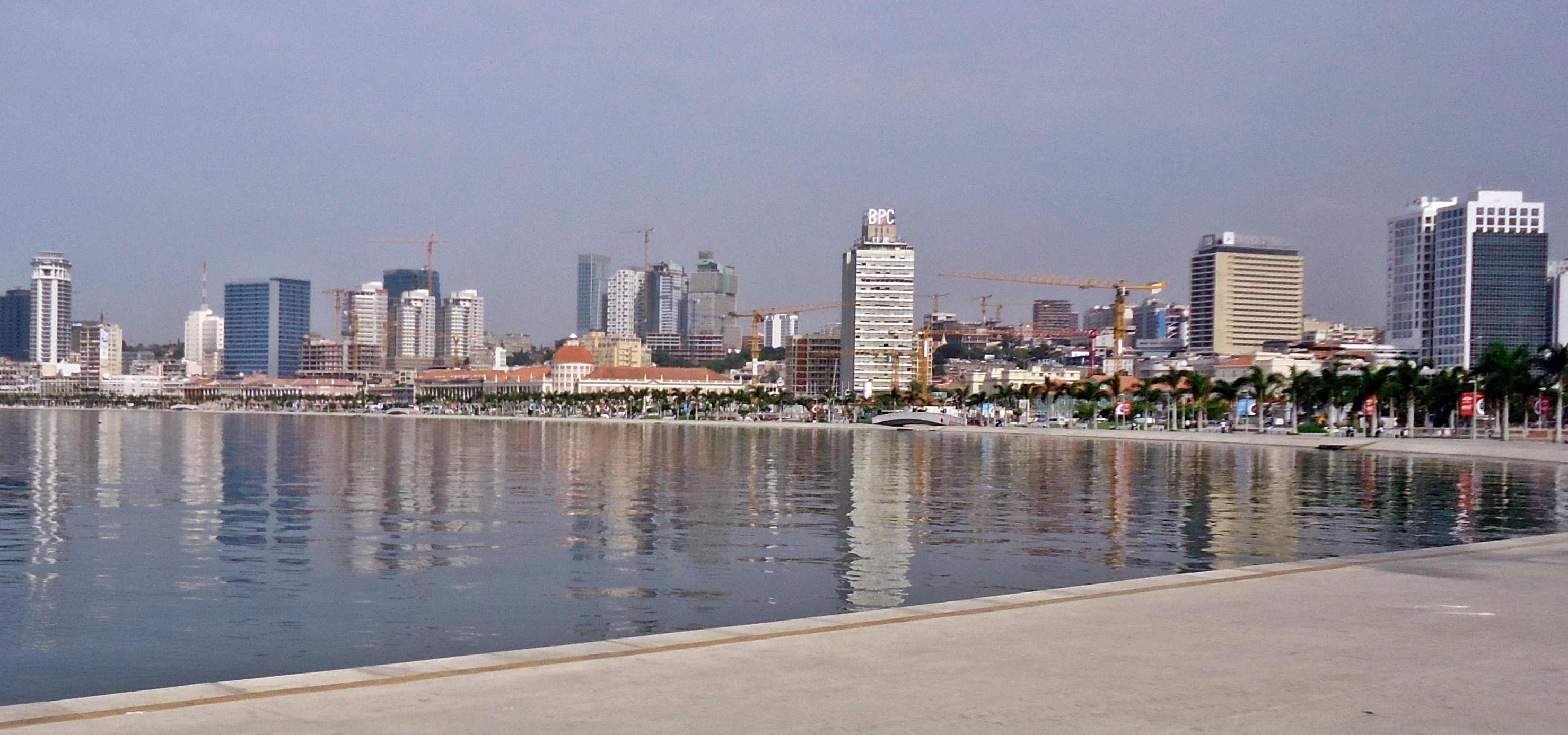 Marginal Avenida 4 de Fevreiro. Photo by Fabio Vanin, Luanda, 2013.